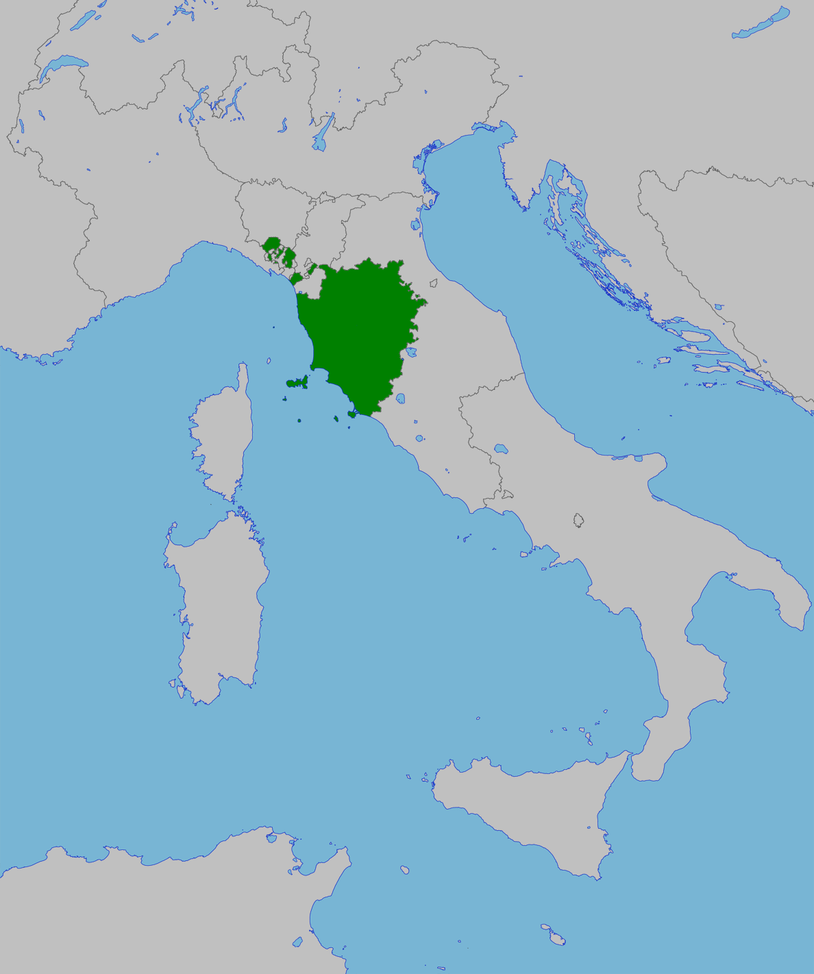 Location of the Granduchy of Tuscany in 1815 Italy